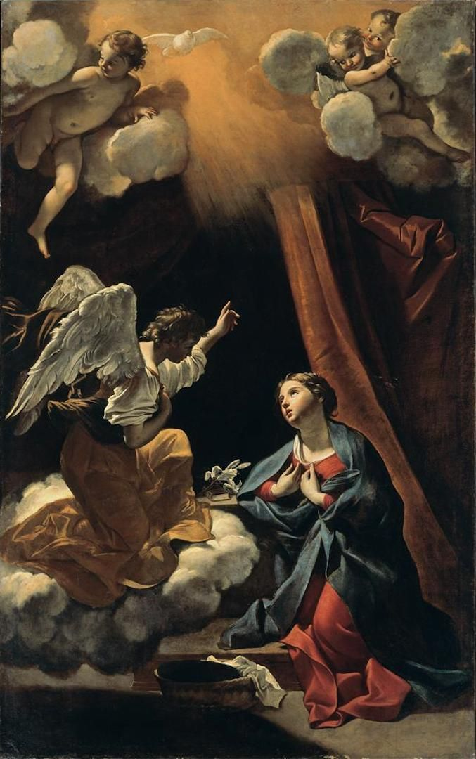 The Annunciation